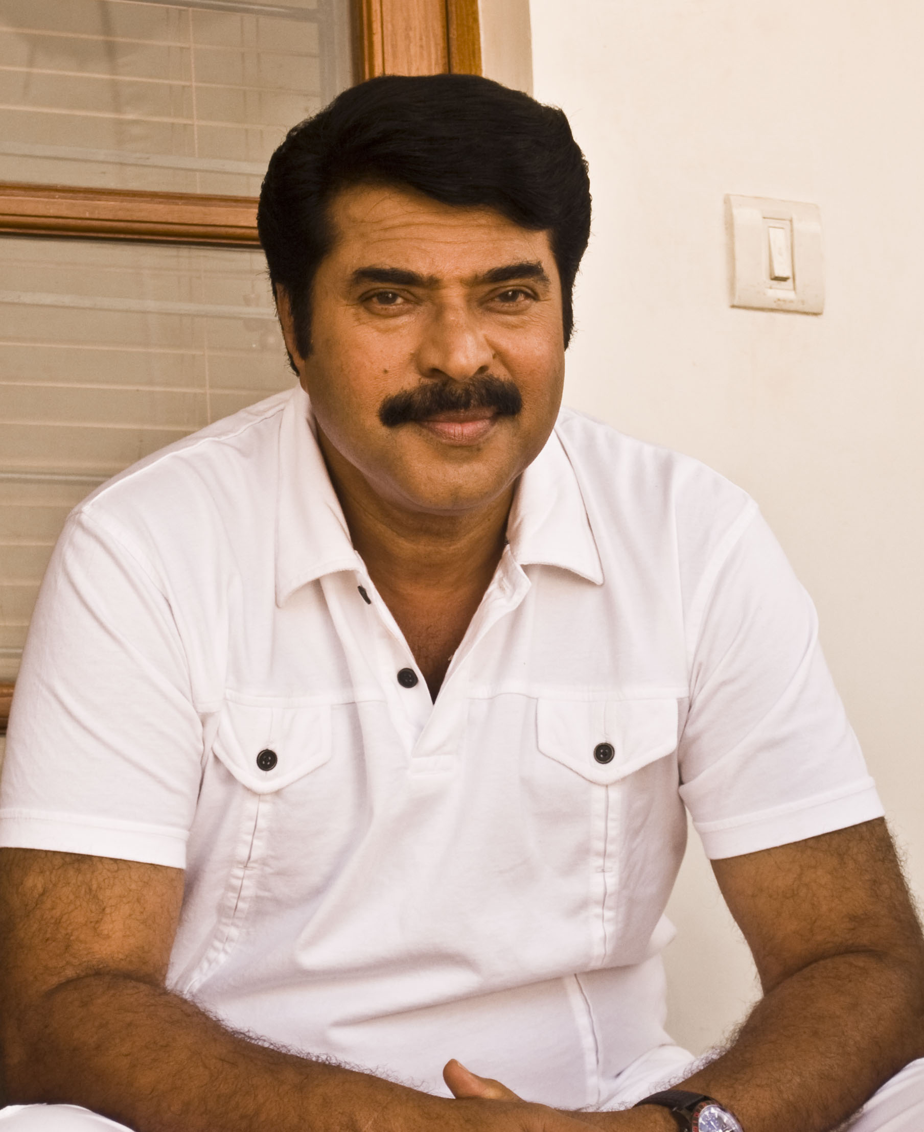 Mamooty during the shoot for South Indian Bank